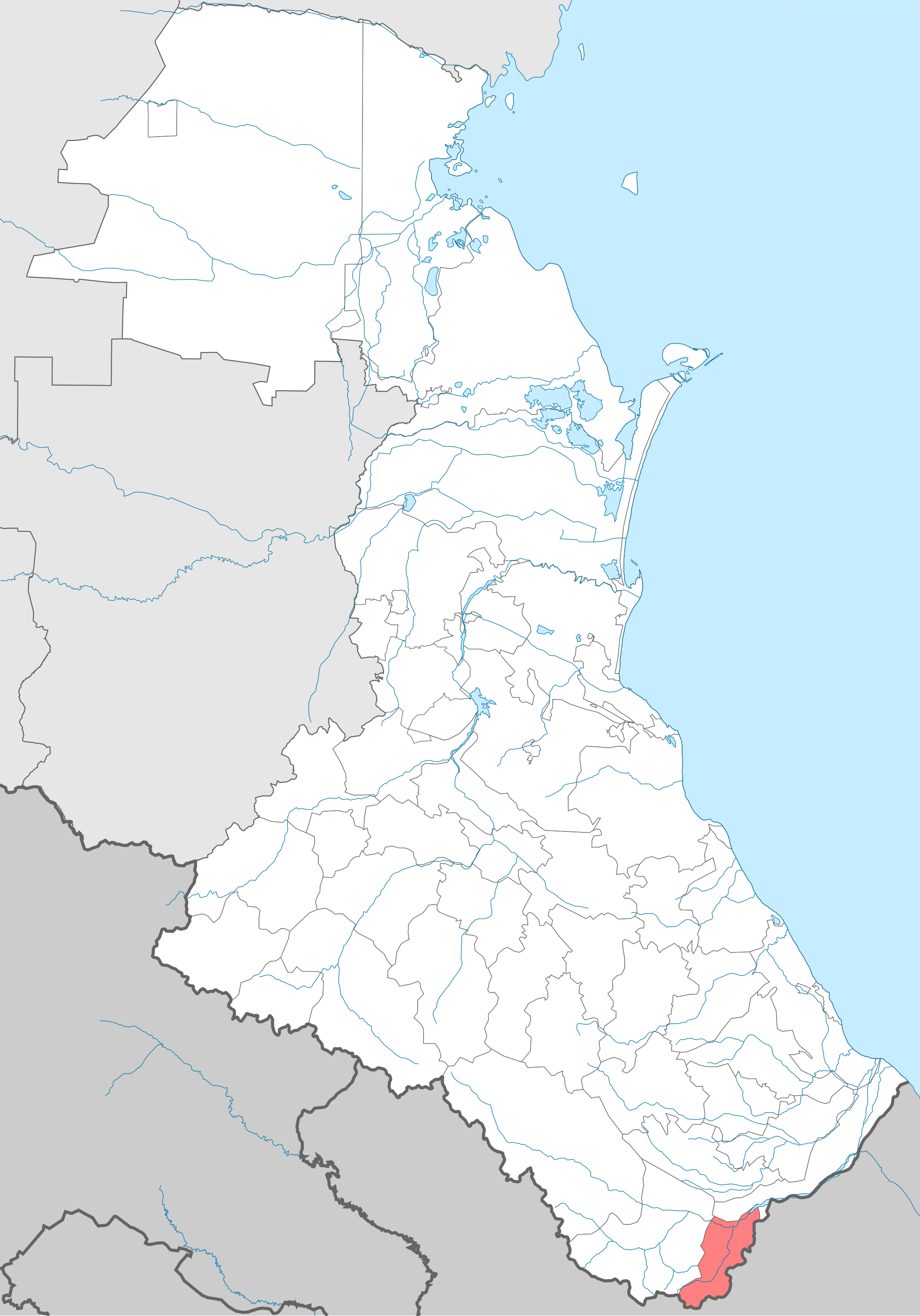 Dokuzparinsky district locator map